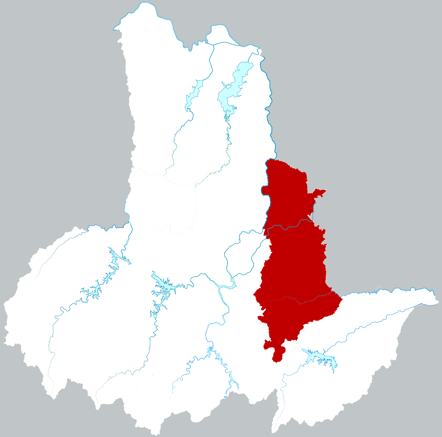 Location of Jin'an district in Lu'an city, China